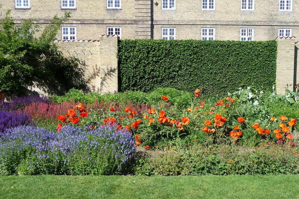 Perennial flower beds along the wall toward Sølvgade in Kongens Have in Copenhagen, Denmark